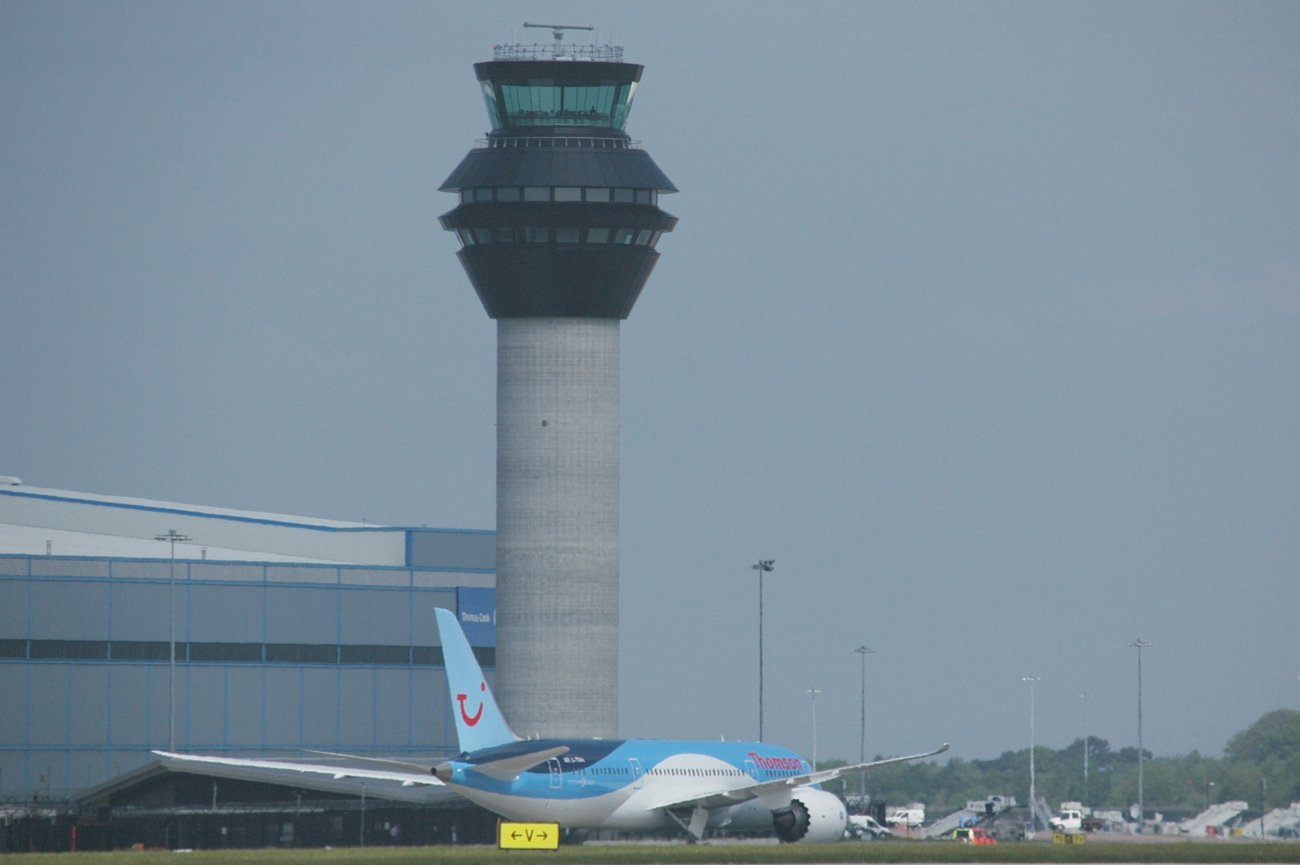 Manchester Airport's new control tower, opened in June 2013, with Thomson Airways' first Boeing 787 Dreamliner G-TUIA taxying in at the end of its delivery flight.